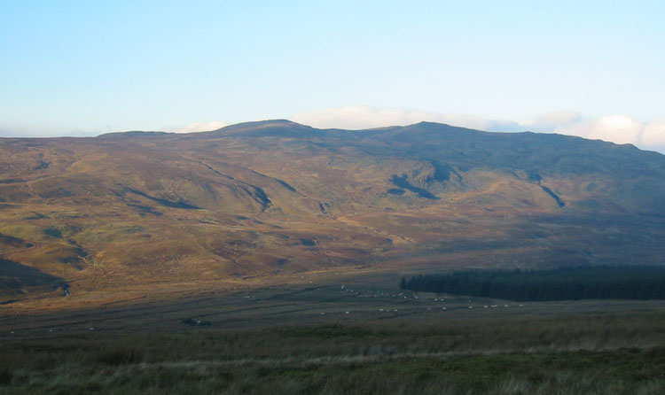 Galltdar